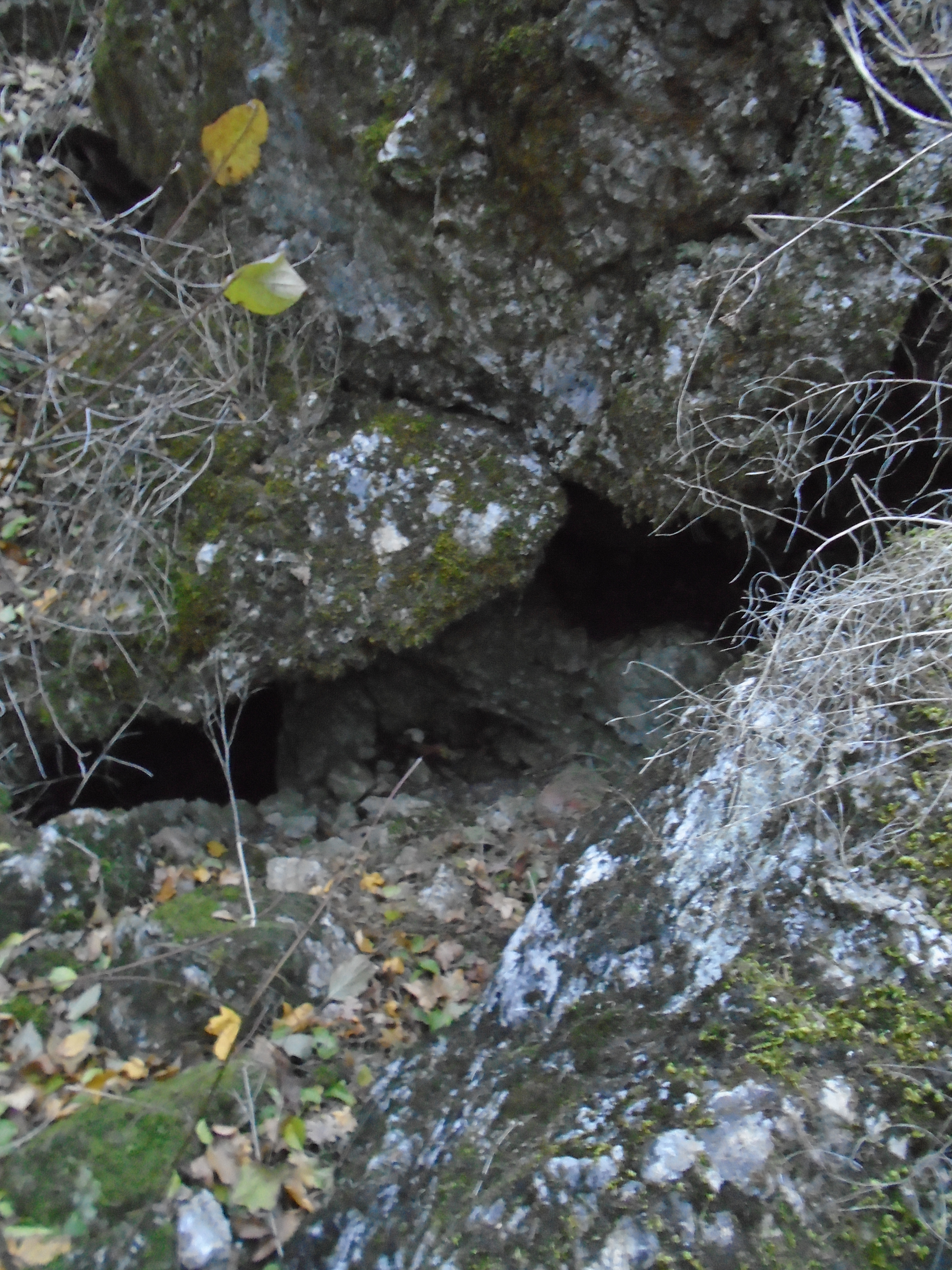 Entrance of Kevély-nyergi Cave in Pilisborosjenő.